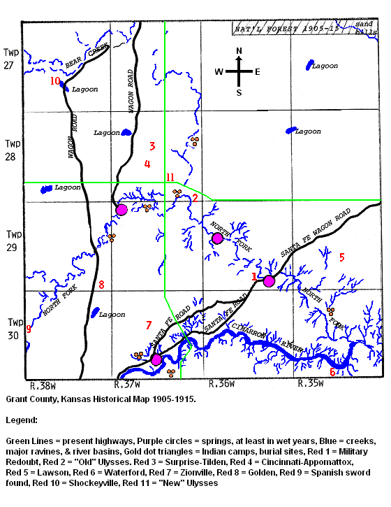 Grant County Kansas Historical Map 1905-1915